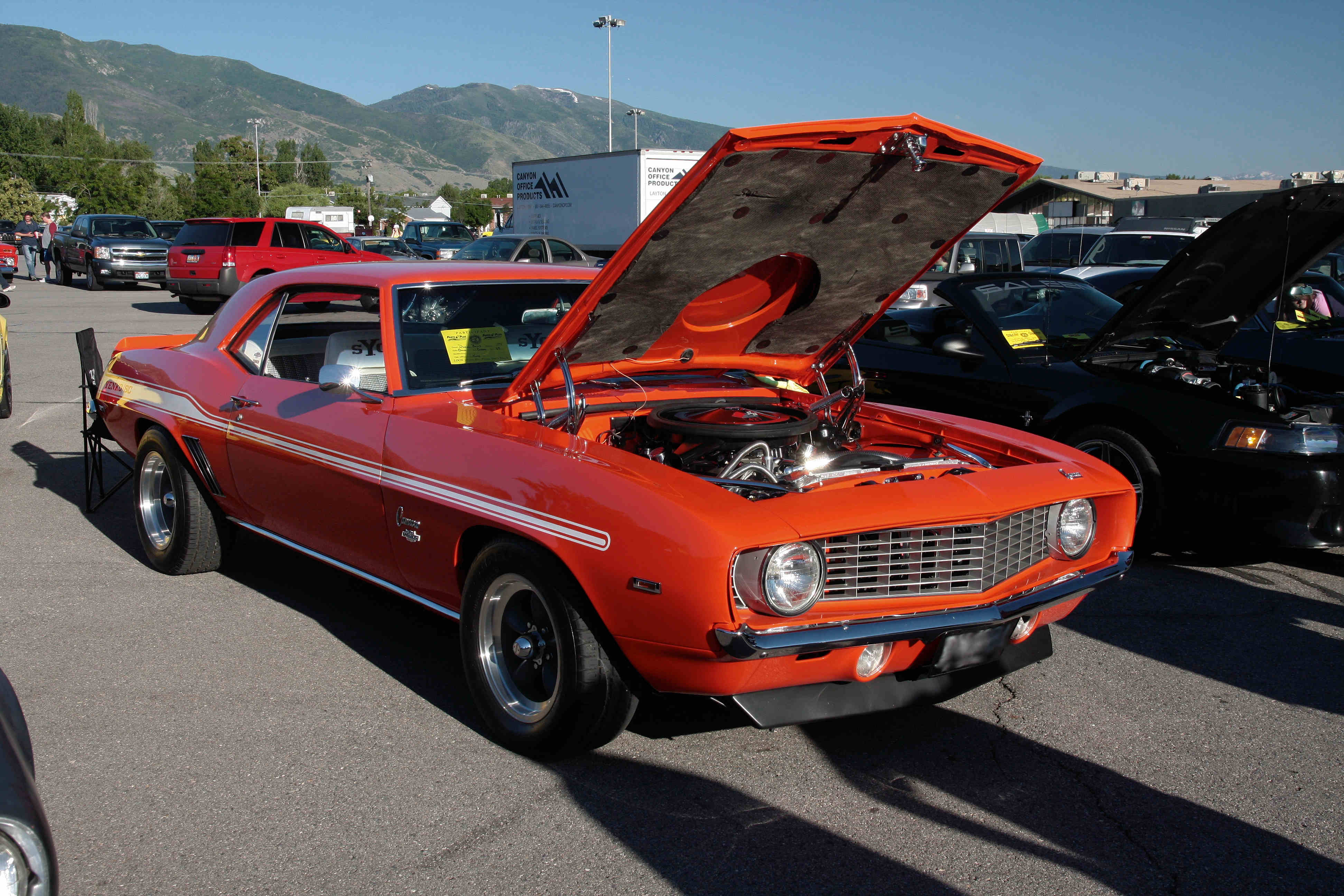 High quality photo of 1969 Camaro with Yenko markings